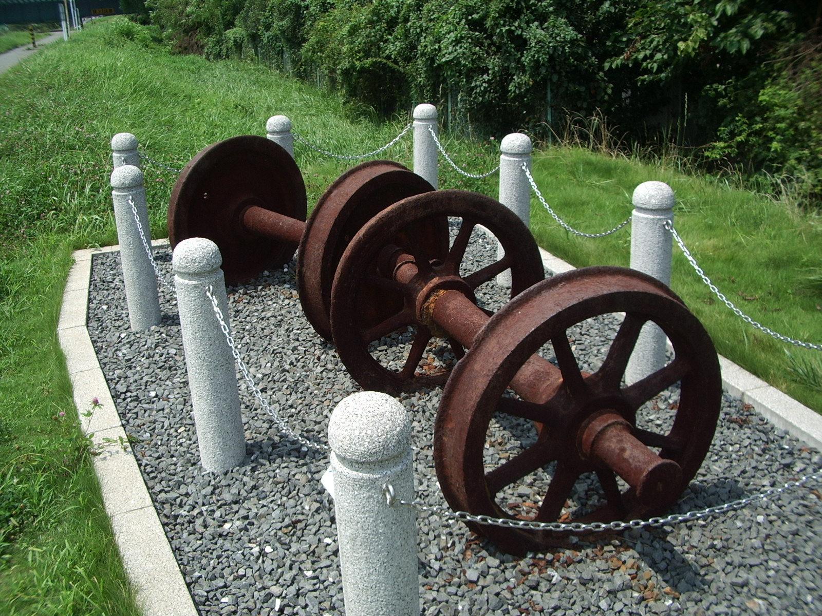 hachikosen tragedy monument